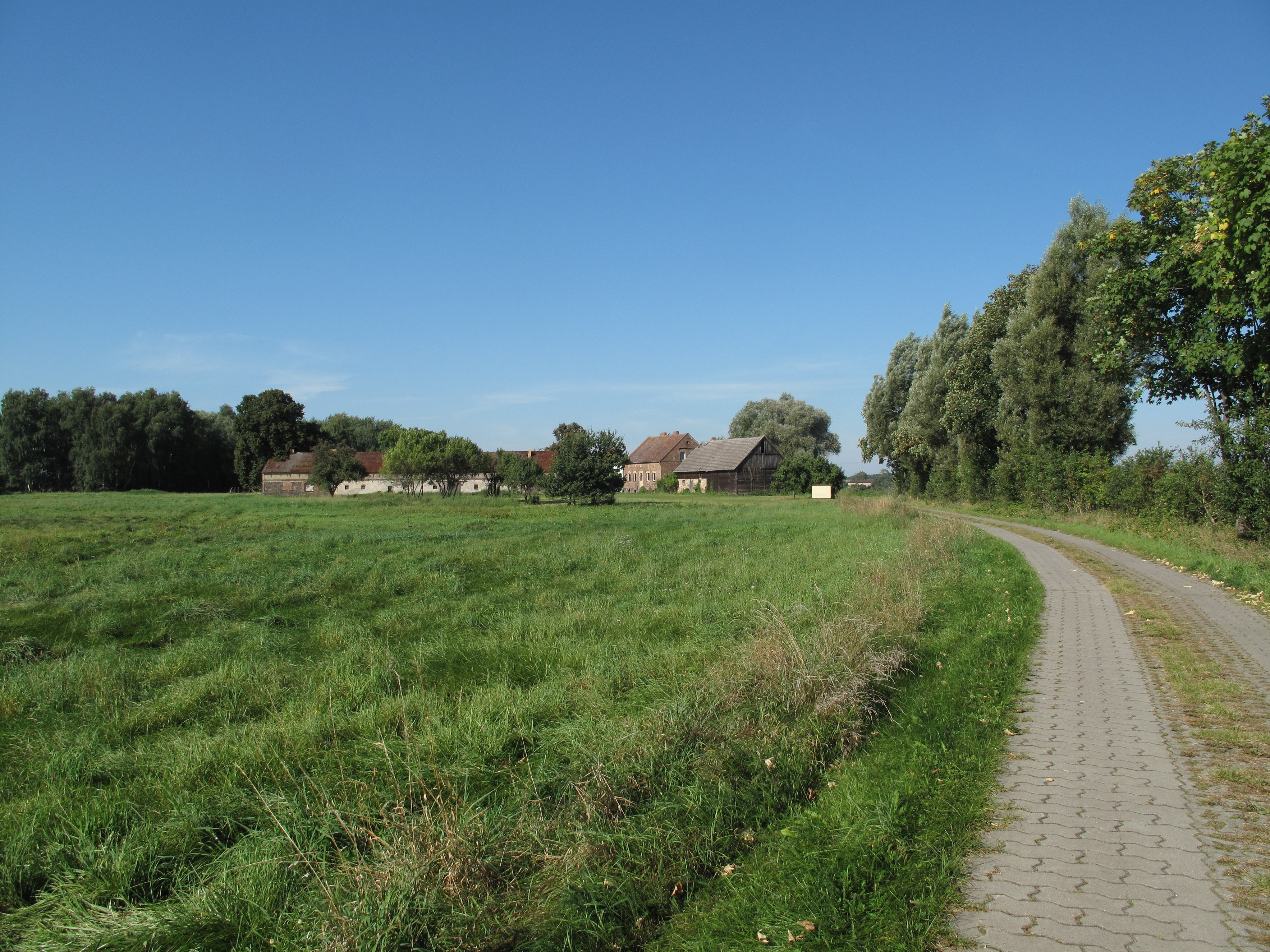 Lehngutweg (way) besides the Rieploser Fließ (stream) with the former “Lehnschulzengut Rieplos“ (fief) in Rieplos. The 3,88 kilometres long stream connects the Lebbiner See with the Stahnsdorfer See (lakes). The village Rieplos is a part of the town Storkow, District Oder-Spree, Brandenburg, Germany. The village and the stream are situated in the Dahme-Heideseen Nature Park.